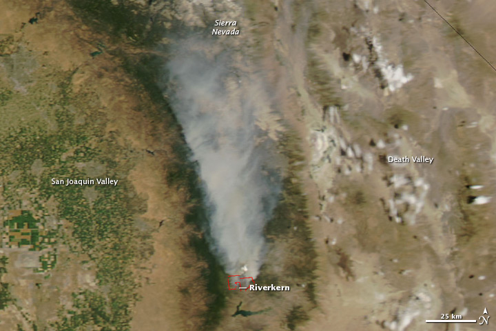 Satellite image of the Bull Fire in Kern COunty California